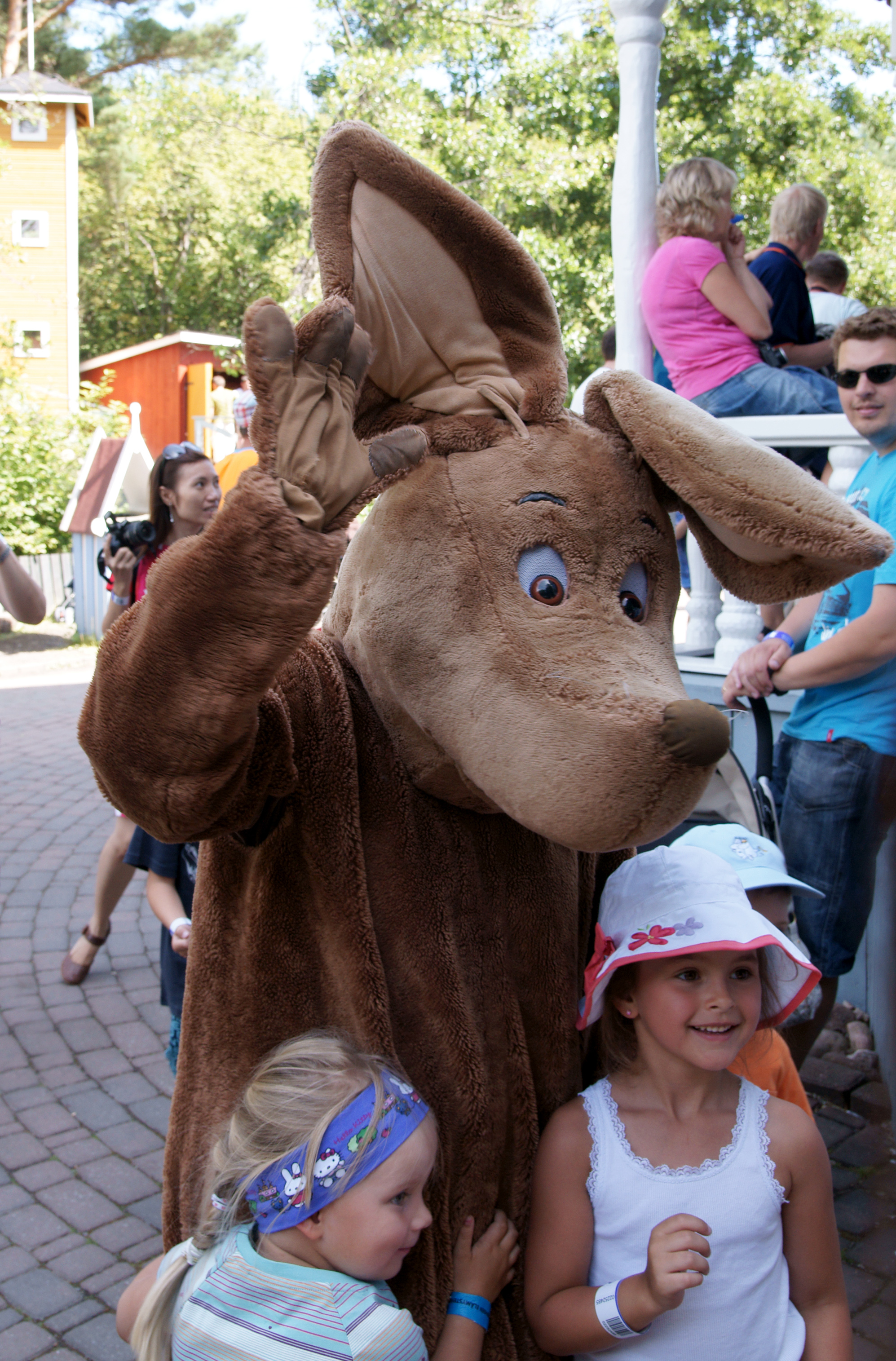 Sniff in Muumimaailma, Naantali.